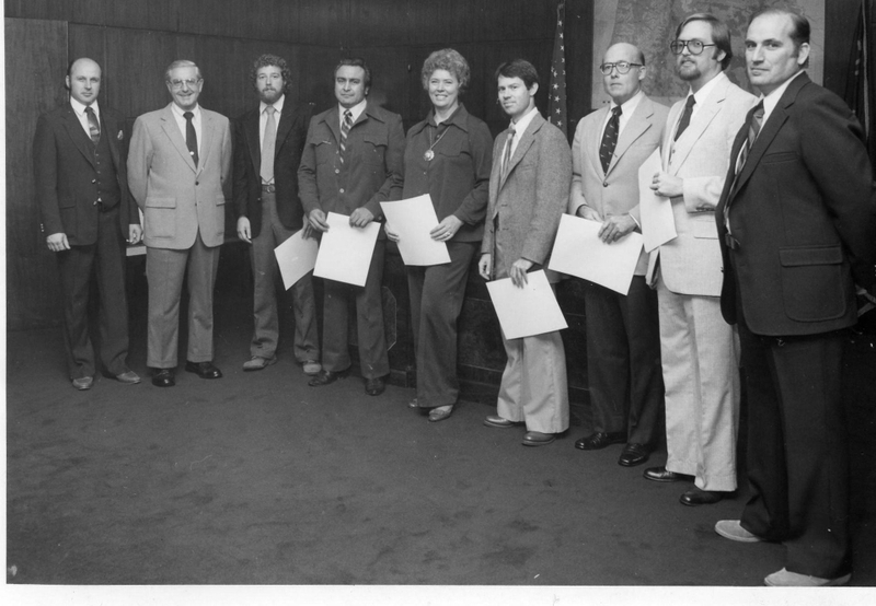 Governor Victor Atiyeh meeting with delegation in early 1980s.